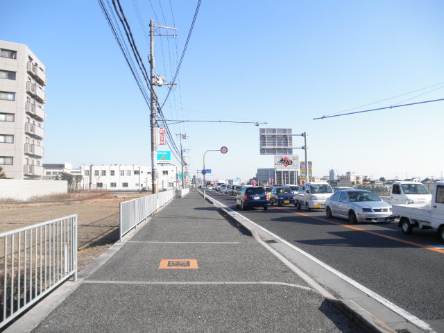 Uozumitown Shimizu Akashicity Hyogopref Route2